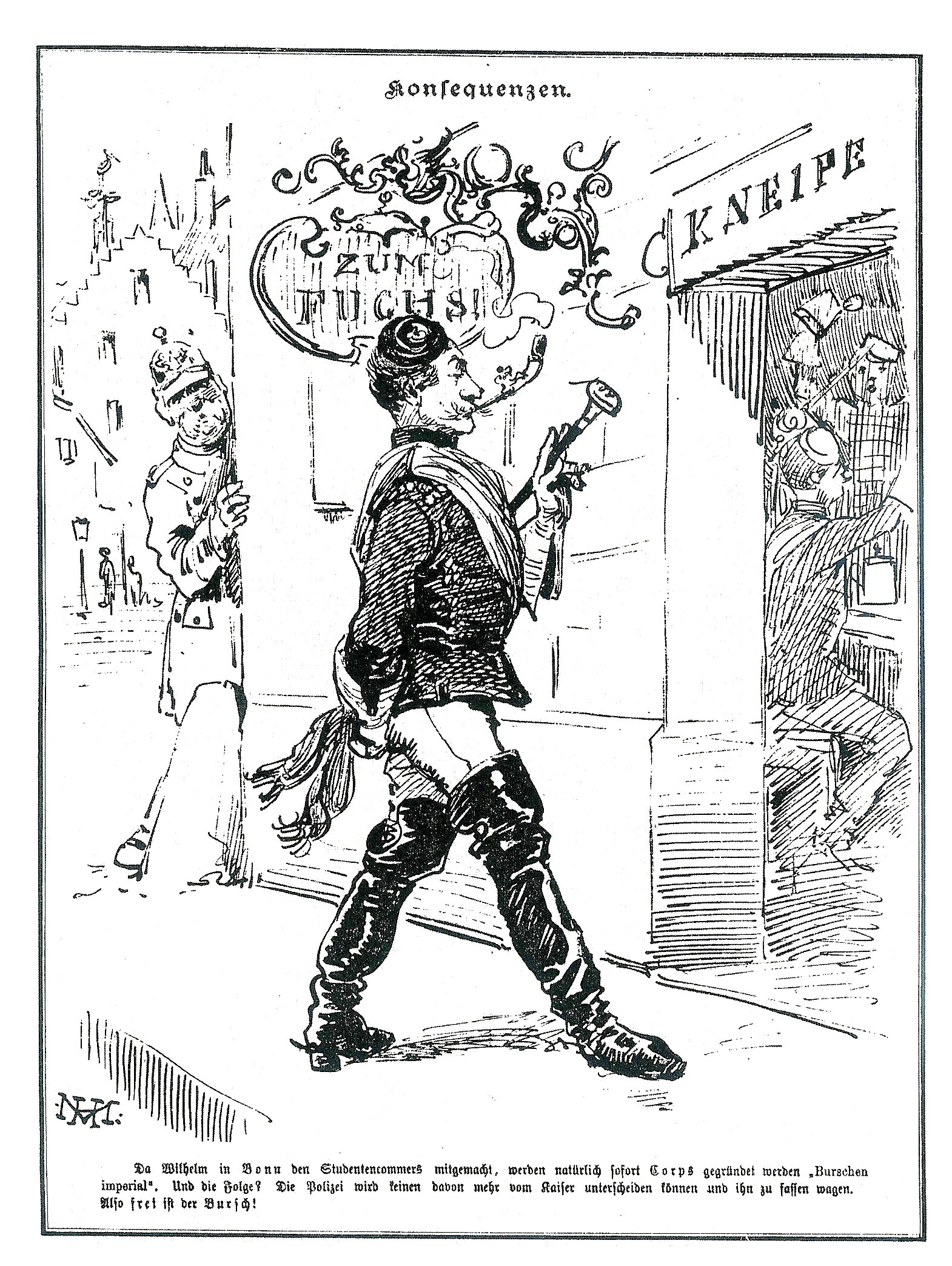 Caricature of German Kaiser Wilhelm II. liasing with German corps students, from Swiss satirical magazine "Nebelspalter" 17, 1891, p. 21